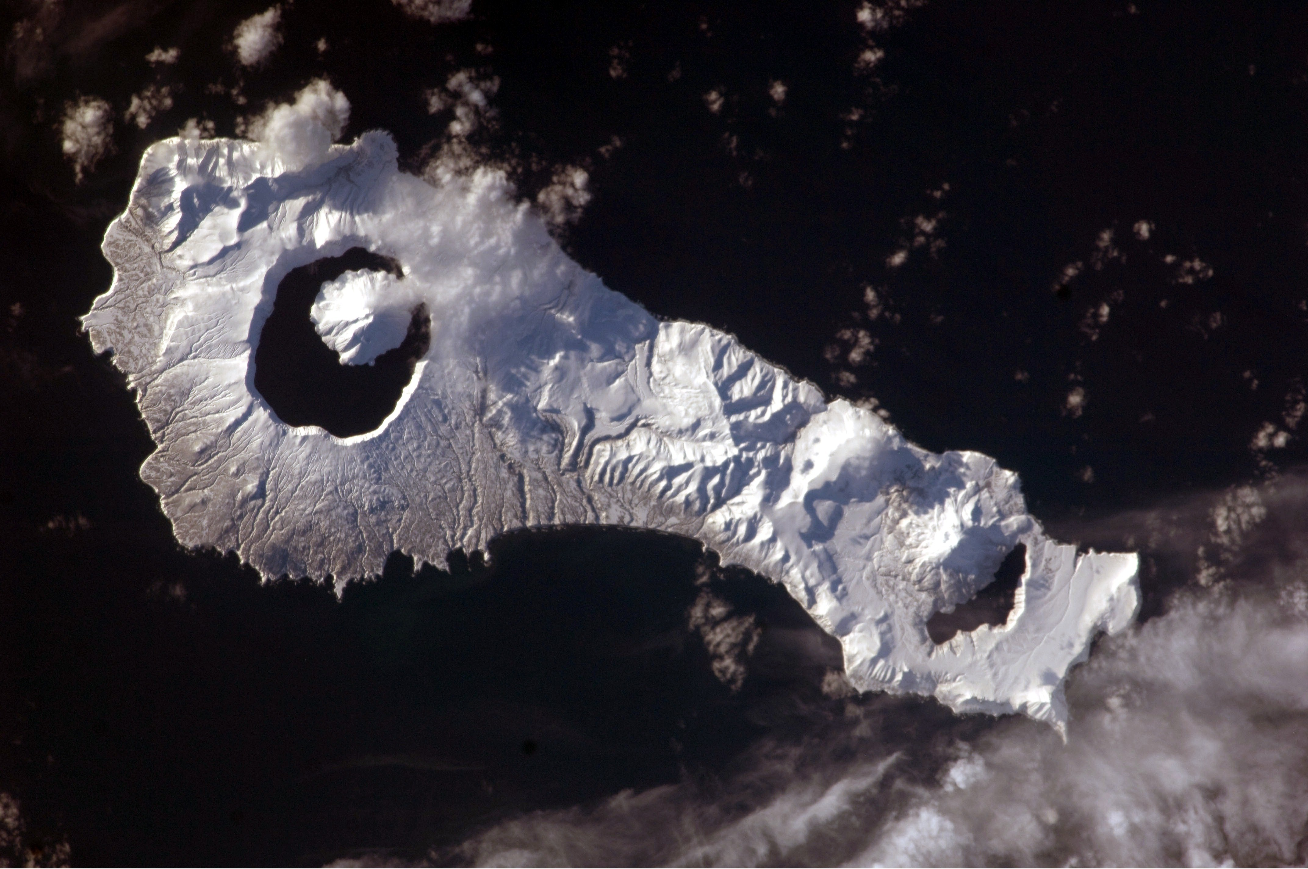 Snow cover highlights the calderas and volcanic cones that form the northern and southern ends of Onekotan Island, part of the Russian Federation in the western Pacific Ocean. In this astronaut photograph from the International Space Station, the northern end of the island (image right) is dominated by the Nemo Peak volcano, which began forming within an older caldera approximately 9,500 years ago.